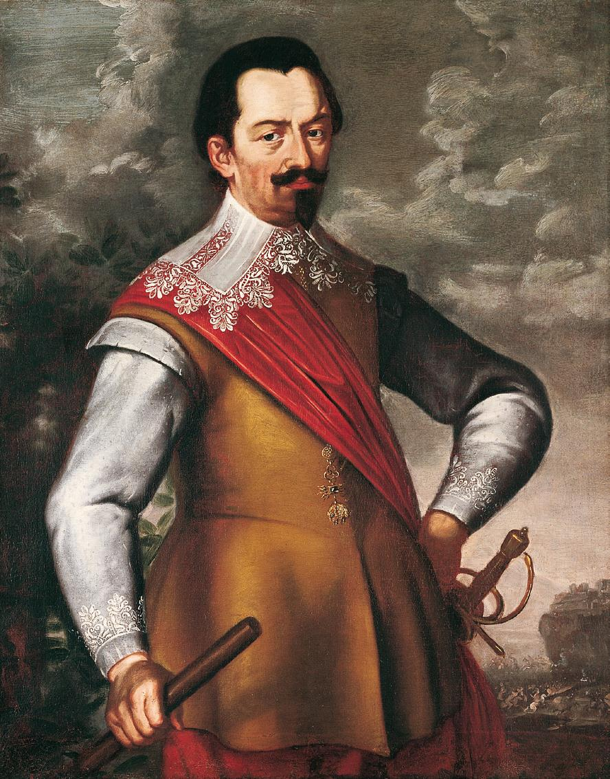 Albrecht von Wallenstein (24 September 1583 – 25 February 1634), was a Bohemian military leader and politician, who offered his services and an army of 30,000 to 100,000 men during the Thirty Years' War (1618–48), to the Holy Roman Emperor Ferdinand II. He became the supreme commander of the armies of the Habsburg Monarchy and a major figure of the Thirty Years' War.